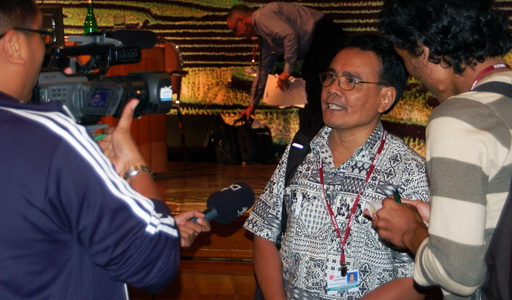 Journalists interview CIFOR scientist Daniel Murdiyarso during Forest Day 1, held parallel to the UN Climate Change conference in Bali in December 2007.